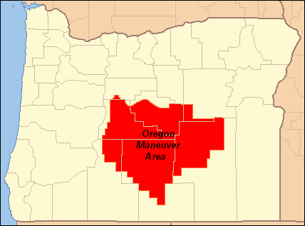 Map showing the area used by the United States Army for the Oregon Maneuver, a World War II training exercise conducted in central Oregon in 1943; the maneuver area covers much of Crook, Deschutes, Harney, Klamath, and Lake counties plus small parts of Jefferson and Grant counties